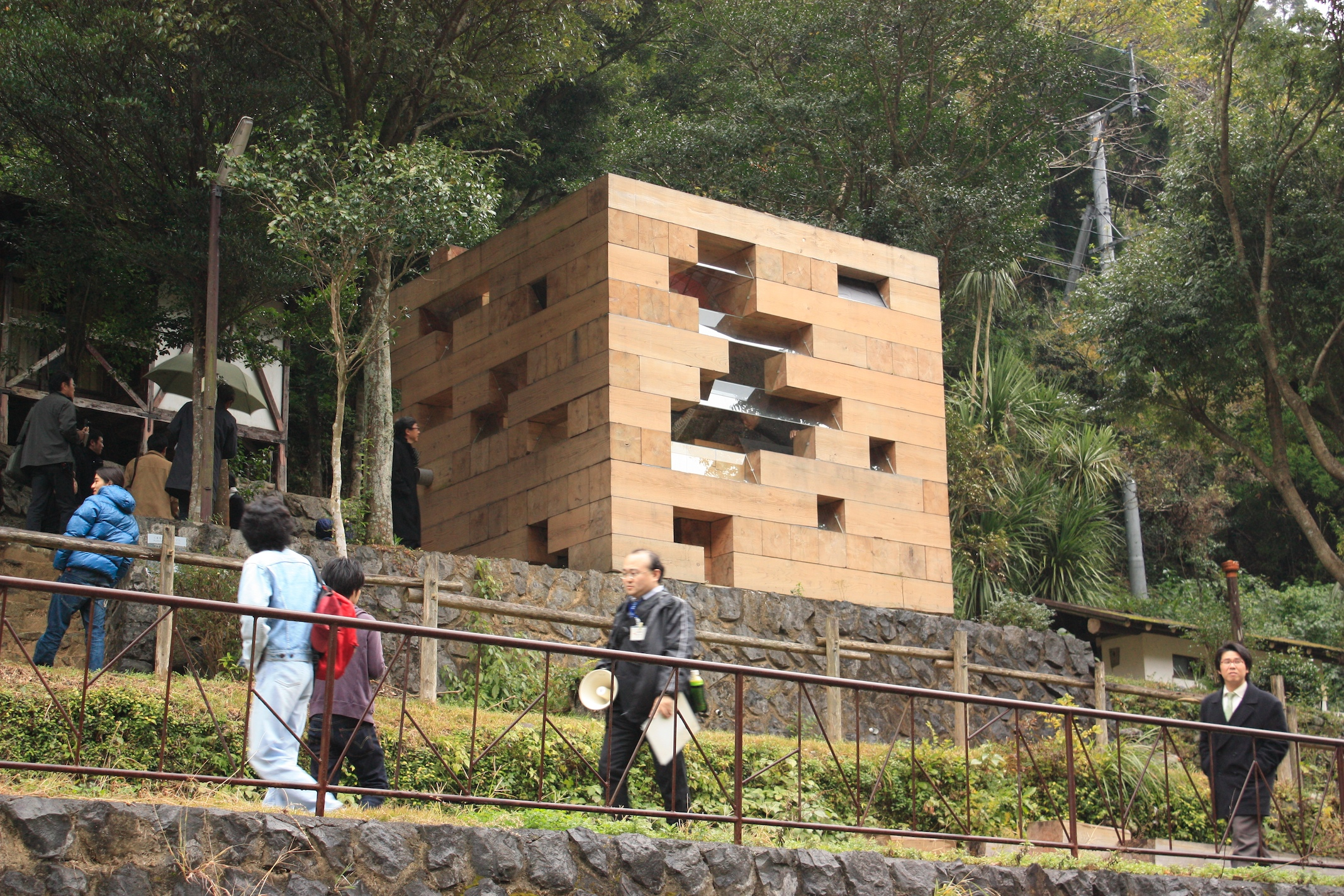 "Final Wooden House" designed by Sou Fujimoto